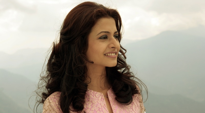 Koel Mullick, a Bengali film actress image